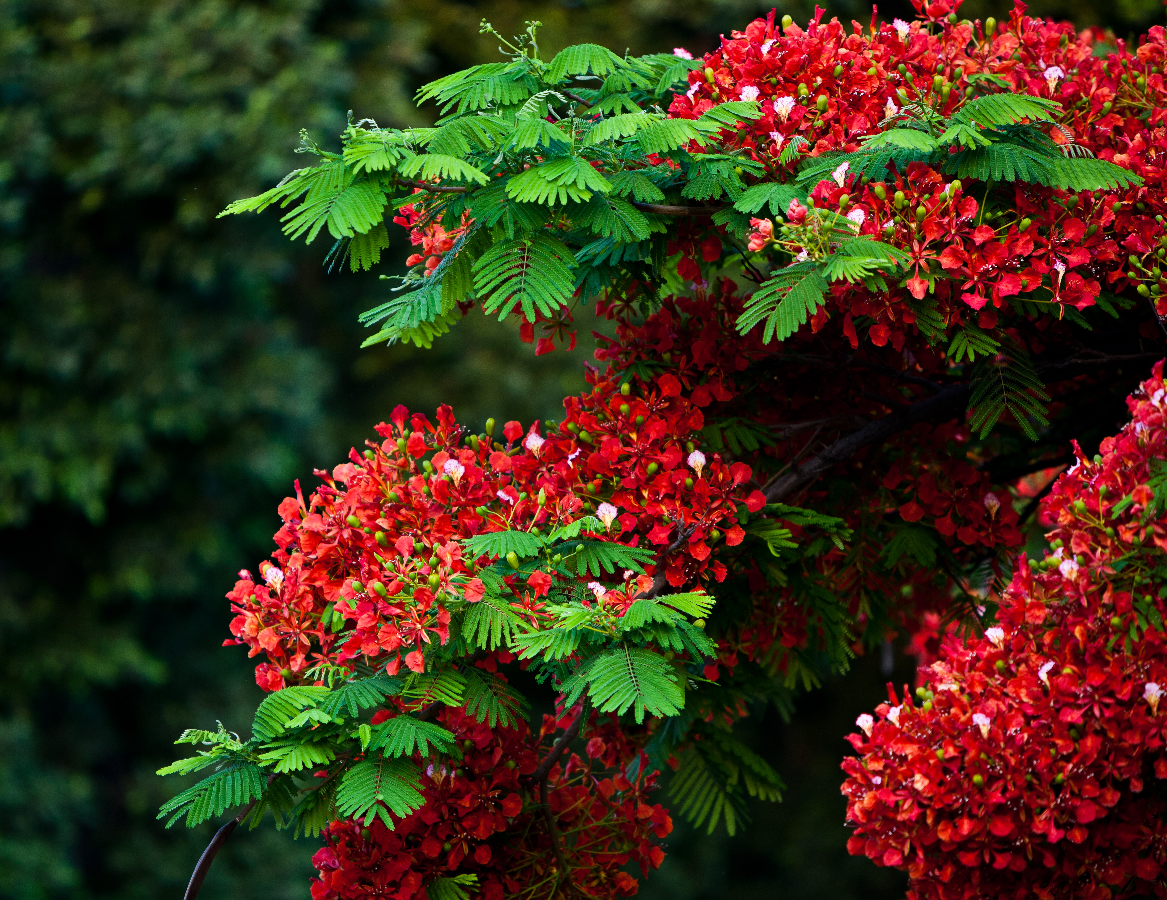 Delonix regia (tabachin) in bloom in Leon, Guanajuato, Mexico